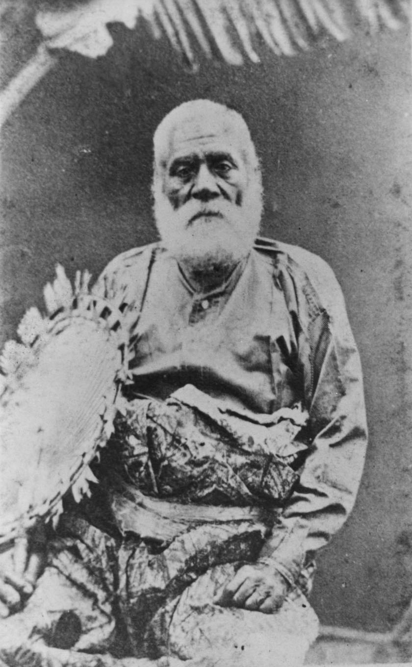 Photograph of Ratu Cakobau (Thakombau). Photograph : albumen silver ; 13.2 x 10.0 cm. Three-quarter-length full face man seated wearing native dress and carrying fan.